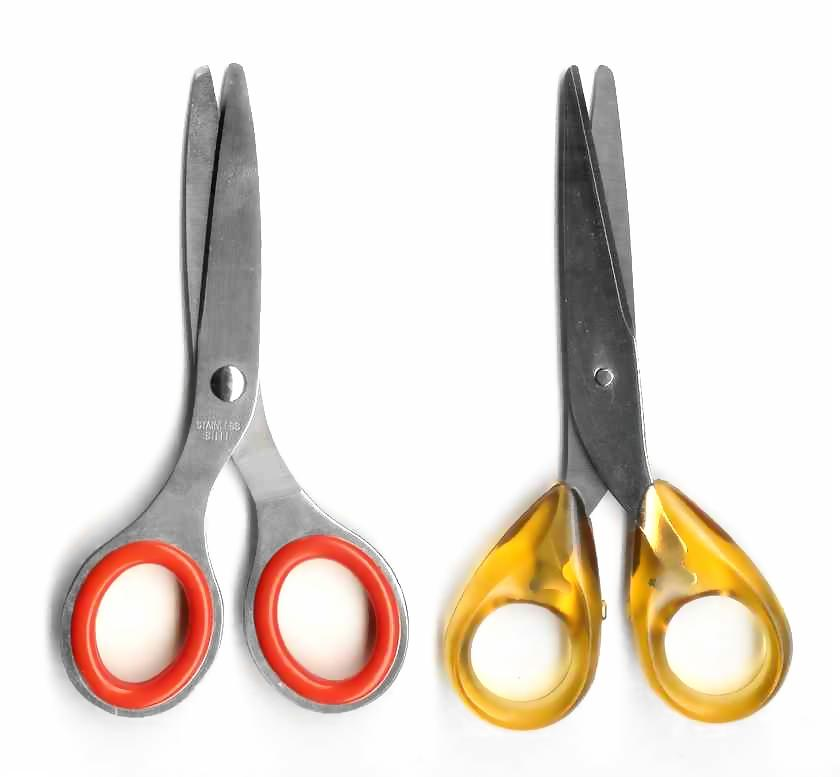 two scissors for Left-hand and Right-hand. Clean up of previous image.